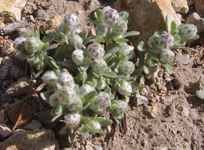 Stylocline gnaphaloides — Everlasting neststraw. On the Triunfo section of the Backbone Trail at Circle X Ranch Park — in the Santa Monica Mountains National Recreation Area, California. NPS photo, no copyright.